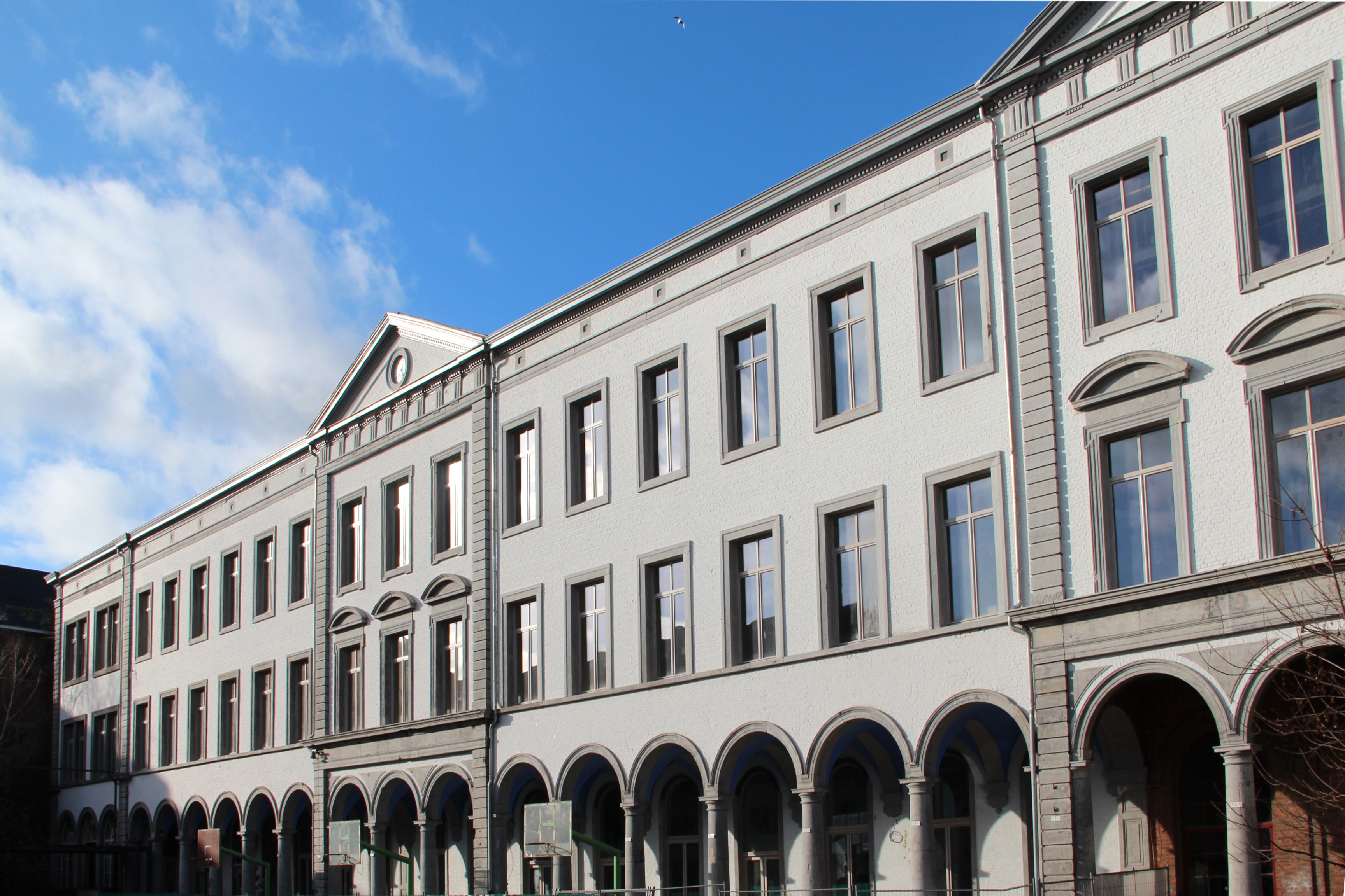 Mons (Belgium), rue des Dominicains, 13 - Collège Saint Stanislas - Building of the arches (1851-1859).